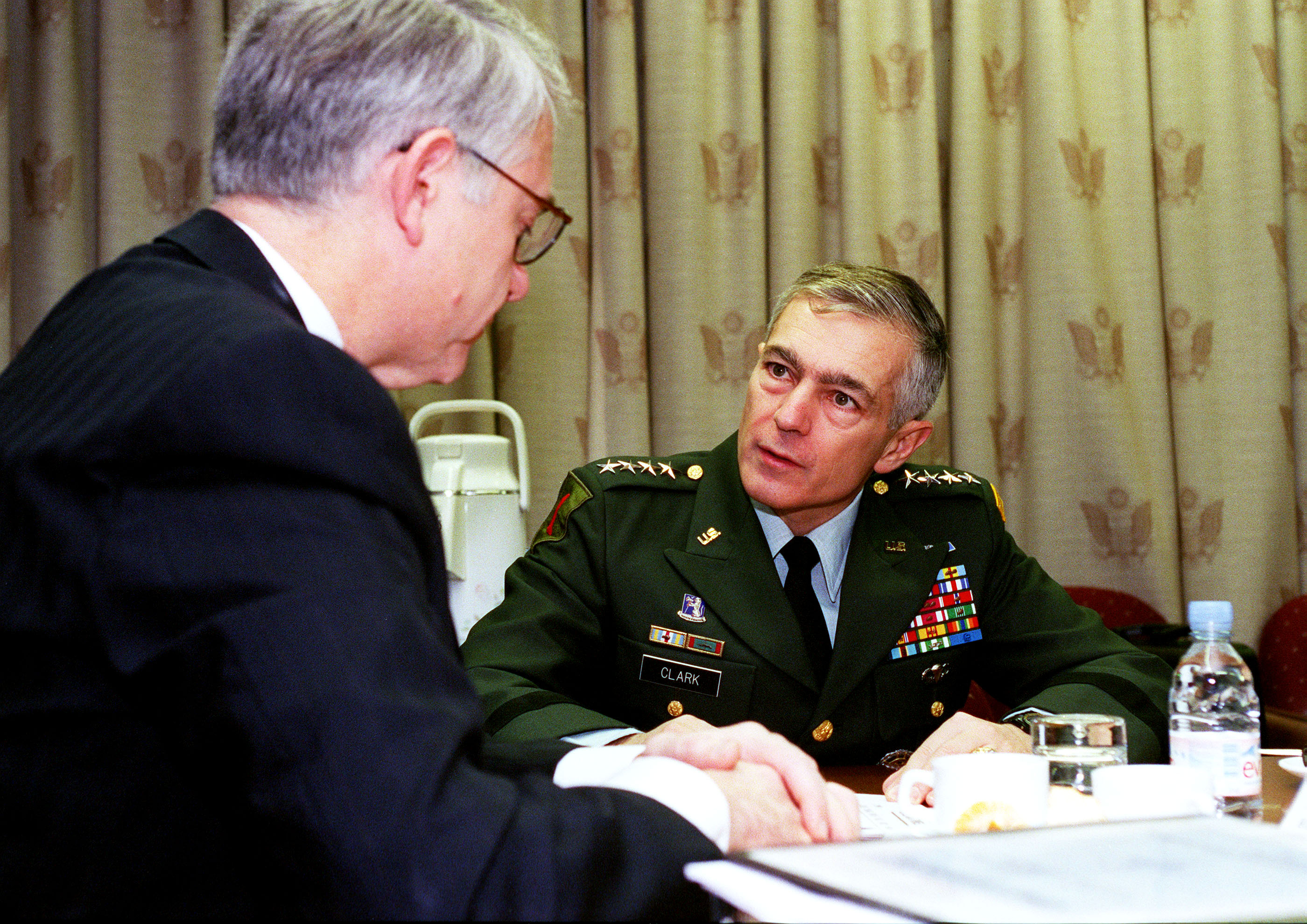 Gen. Wesley Clark, U.S. Army, supreme allied commander Europe (right) meets with Deputy Secretary of Defense John J. Hamre (left) before Hamre attends the second day of the December NATO Defense Ministerial at NATO Headquarters, Brussels, Belgium. Hamre was a last minute replacement for Secretary of Defense William Cohen at the December NATO Defense Ministerial because of the start of a joint U.S.--British bombing campaign against Iraq. The military action was taken in response to Iraq's refusal to cooperate with United Nations weapons inspectors.